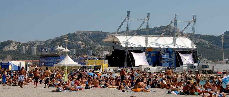 Park in Prado - Beach Soccer World Cup Marseille 2008